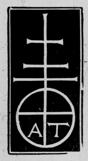 Torresano's mark